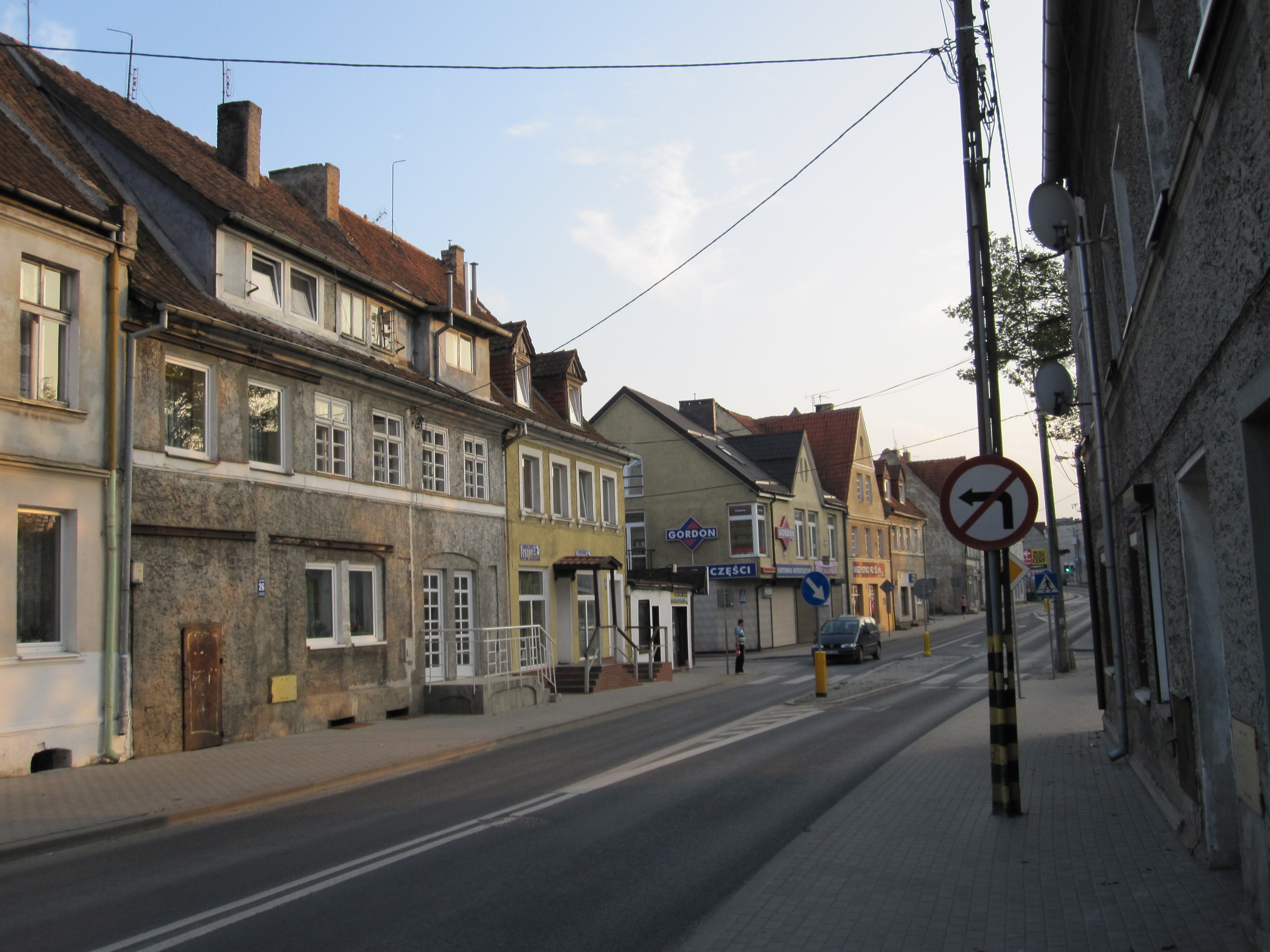 Szczytno - buildings on the Konopnickiej street